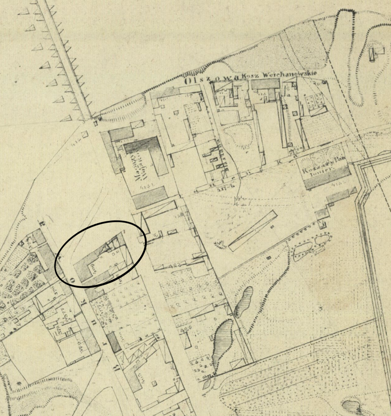 Parcel 409 on the plan of Warsaw, 1859